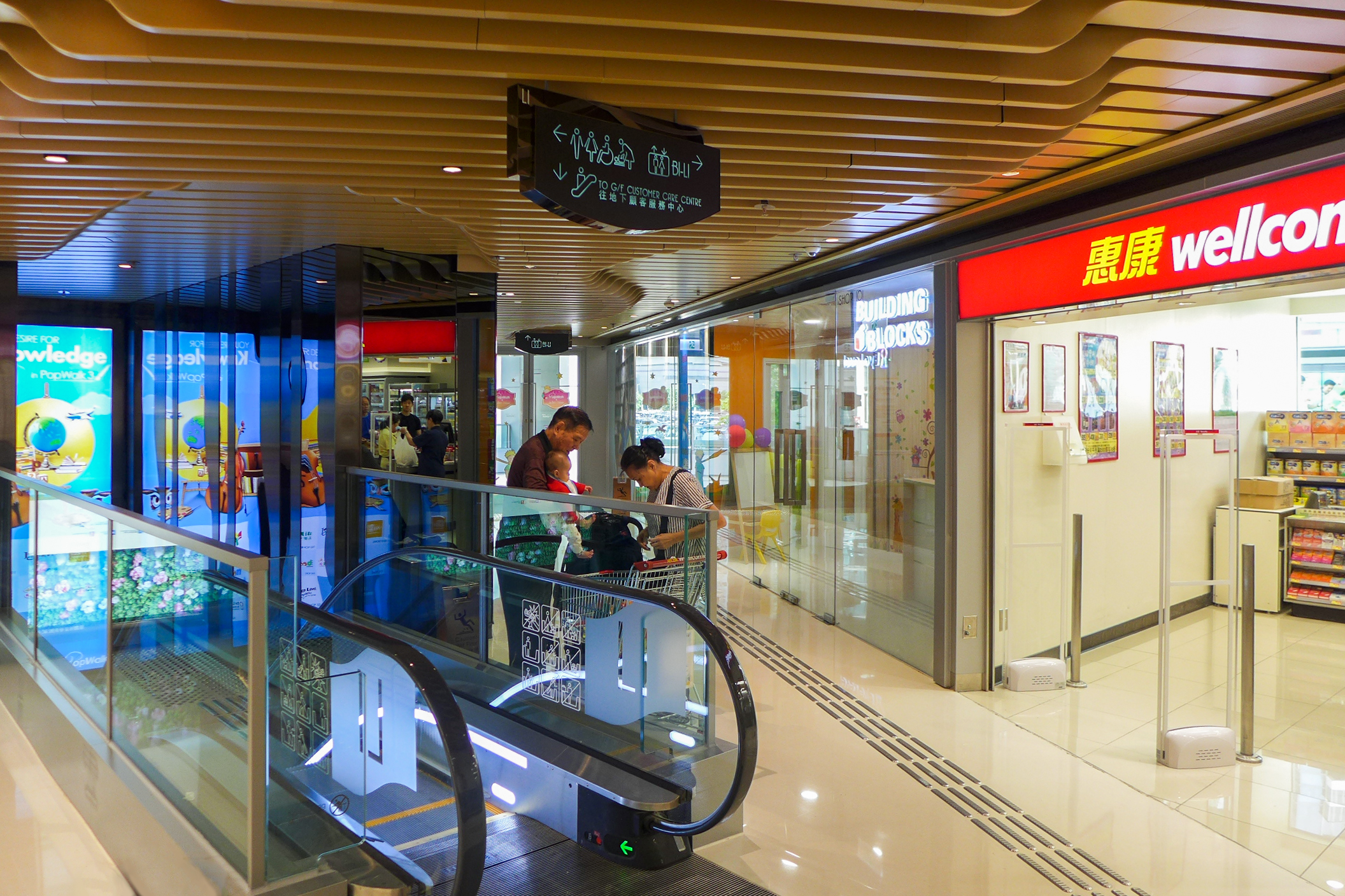 Popwalk 3 Level 1 Shops